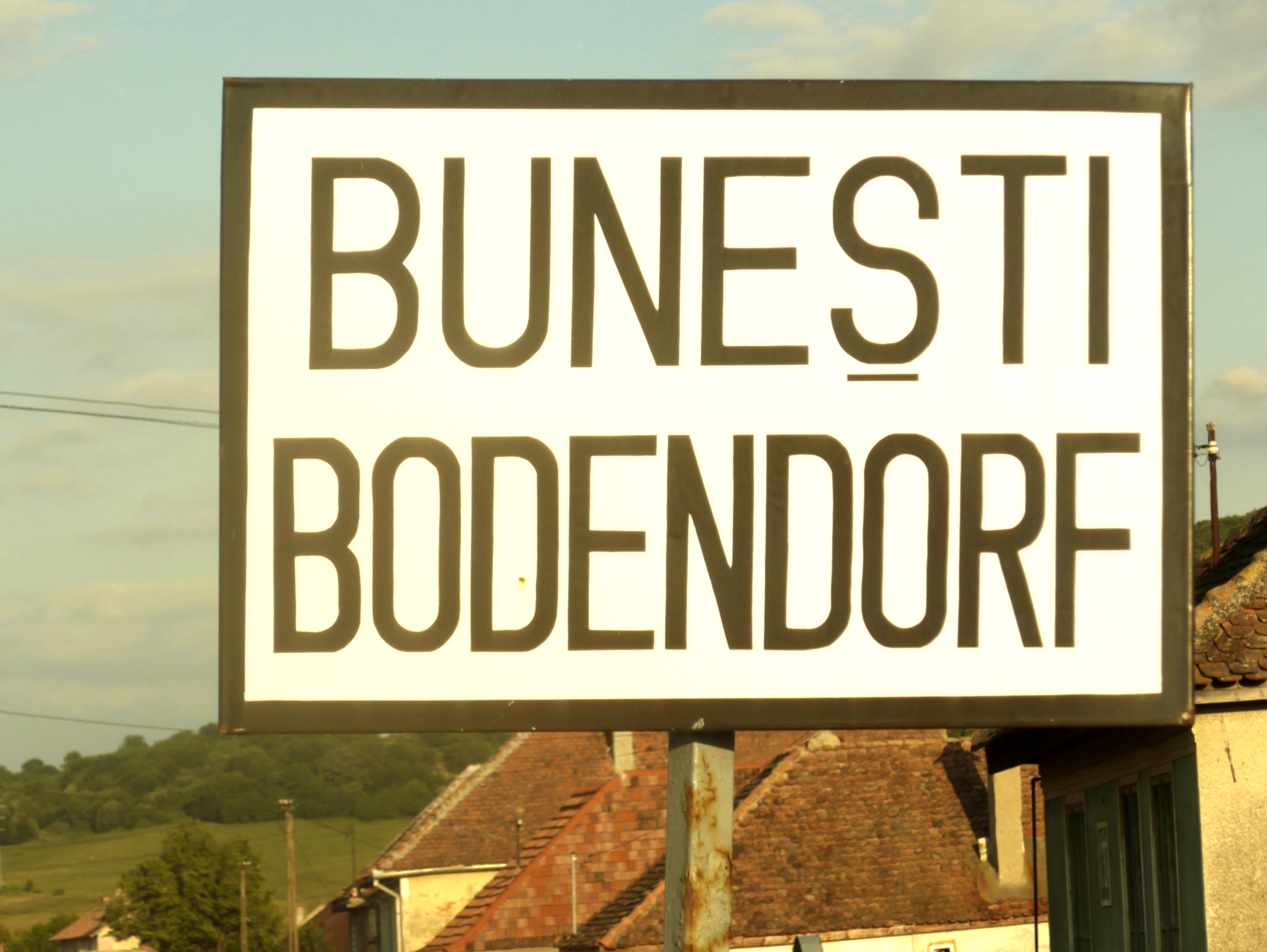 Official bilingual town sign of Bunesti/Bodendorf in Romania